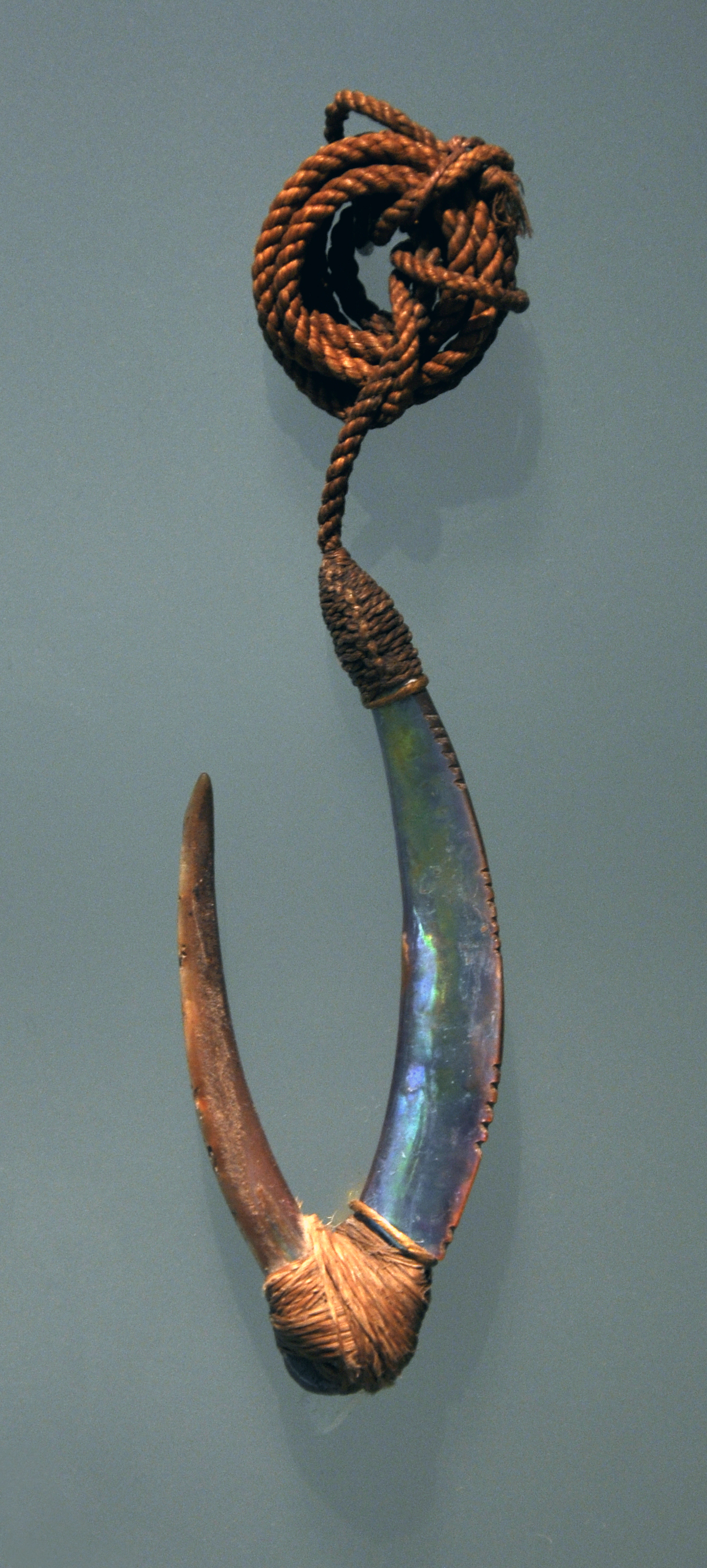 Fishing hook, wood and abalone shell, Maori culture, 1800-1900. In the exhibition "Maori, their treasures have got a soul", in the Musée des Arts Premiers in Paris, from the end of 2011 to the begining of 2012.